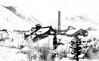 Photo of former Holden Lixiviation Works, Aspen, CO, USA